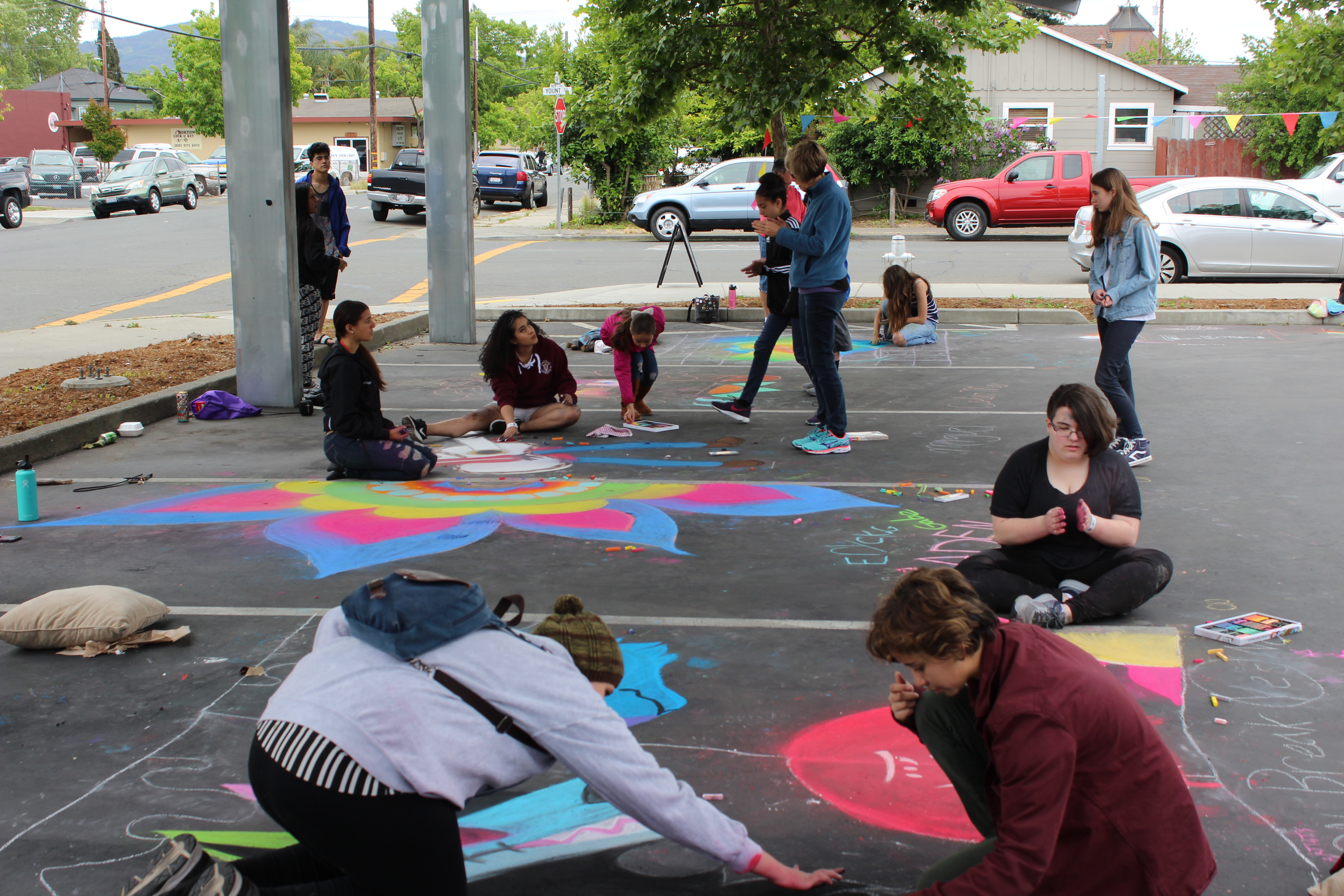 Artists creating chalk art in the New Tech parking lot during La Strada, an annual community festival hosted by the school.